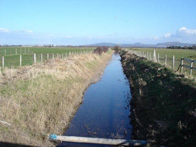 Drainage ditch at Gors. One of many drainage ditches that criss cross the flat land near the North Wales coast.